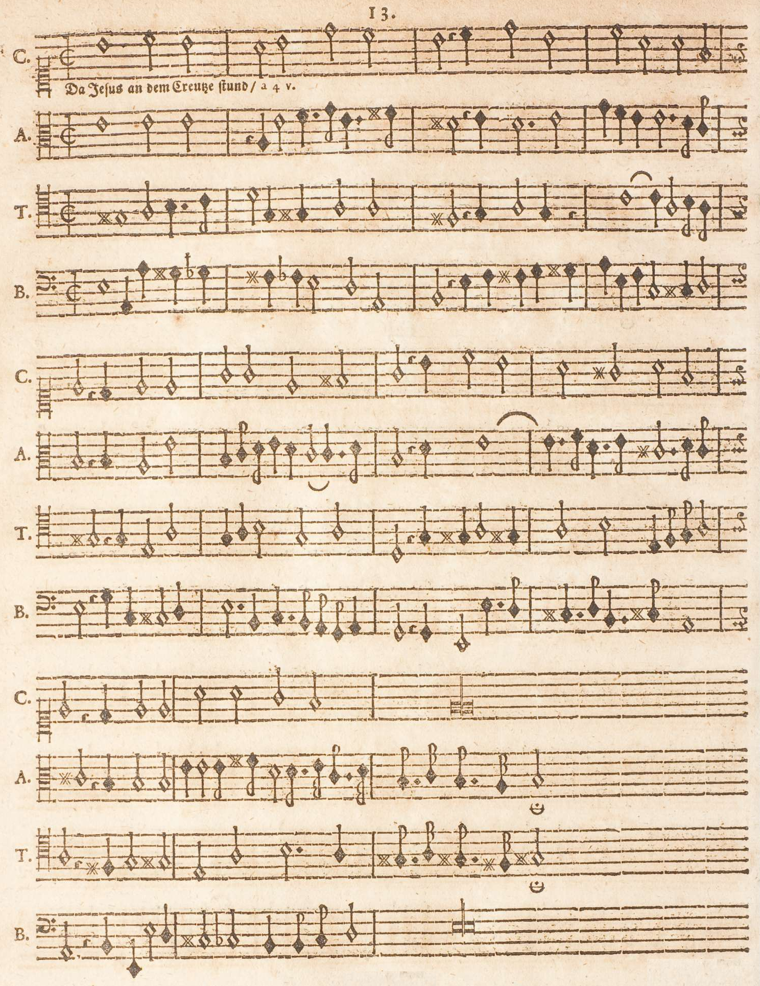 The Reformation hymn "Da Jesus an dem Kreuze stund" from the Görlitzer Tabulaturbuch